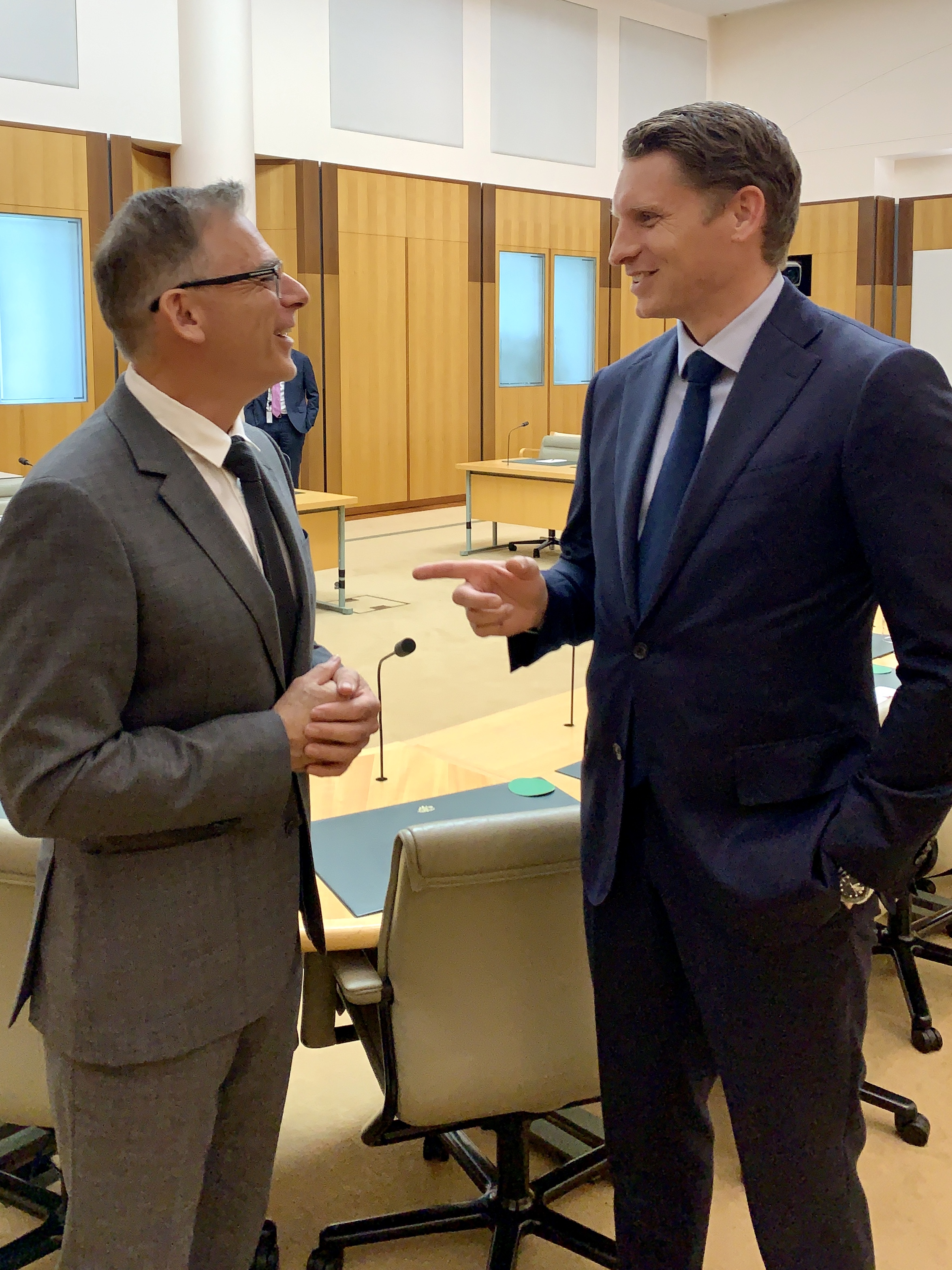 Andrew Hastie MP, Chair of the Parliamentary Joint Committee on Intelligence and Security with Deputy Chair Anthony Byrne MP in February 2020 photo taken by D Birch